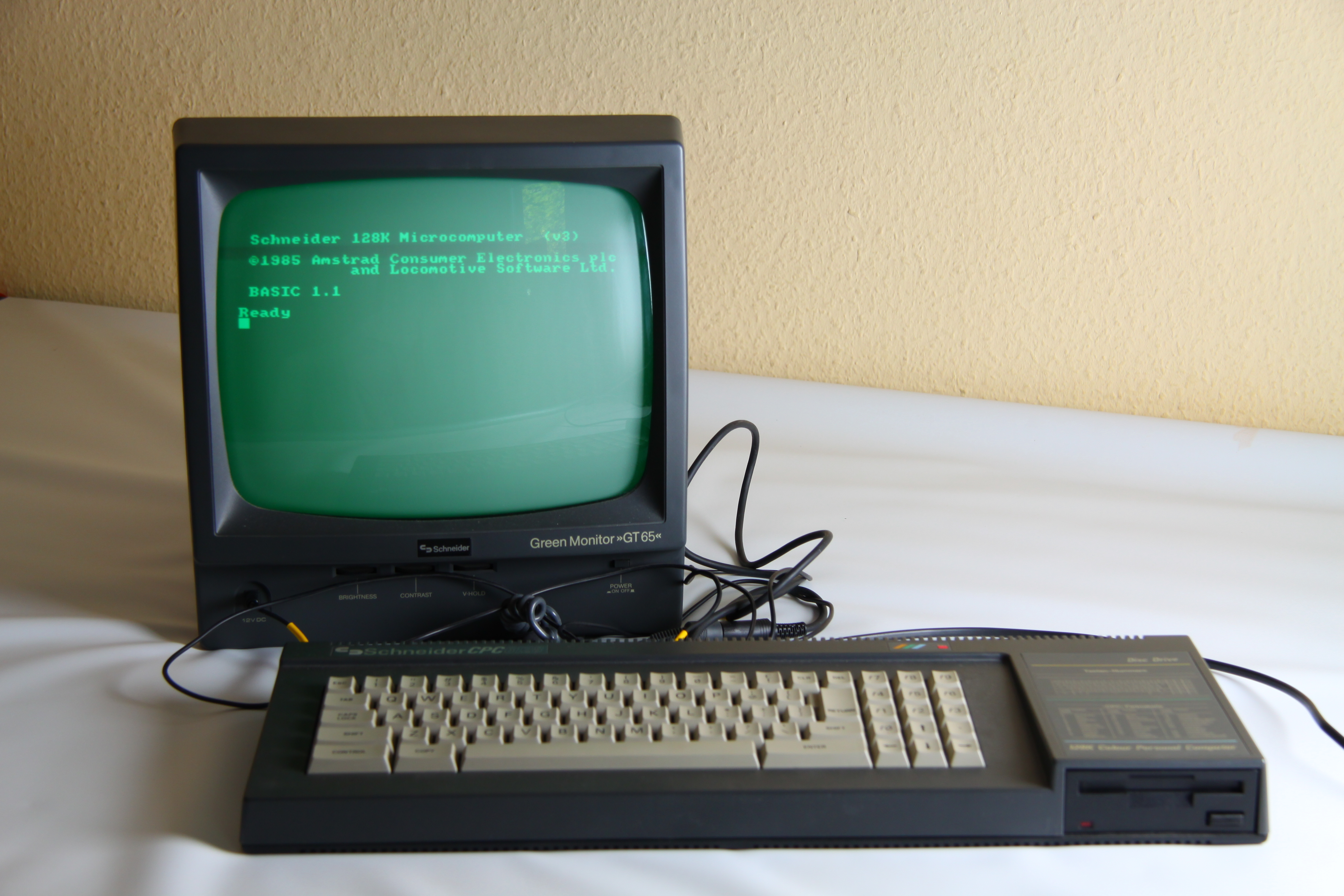 Schneider CPC6128 with green monitor GT65, showing the start screen directly after switching on